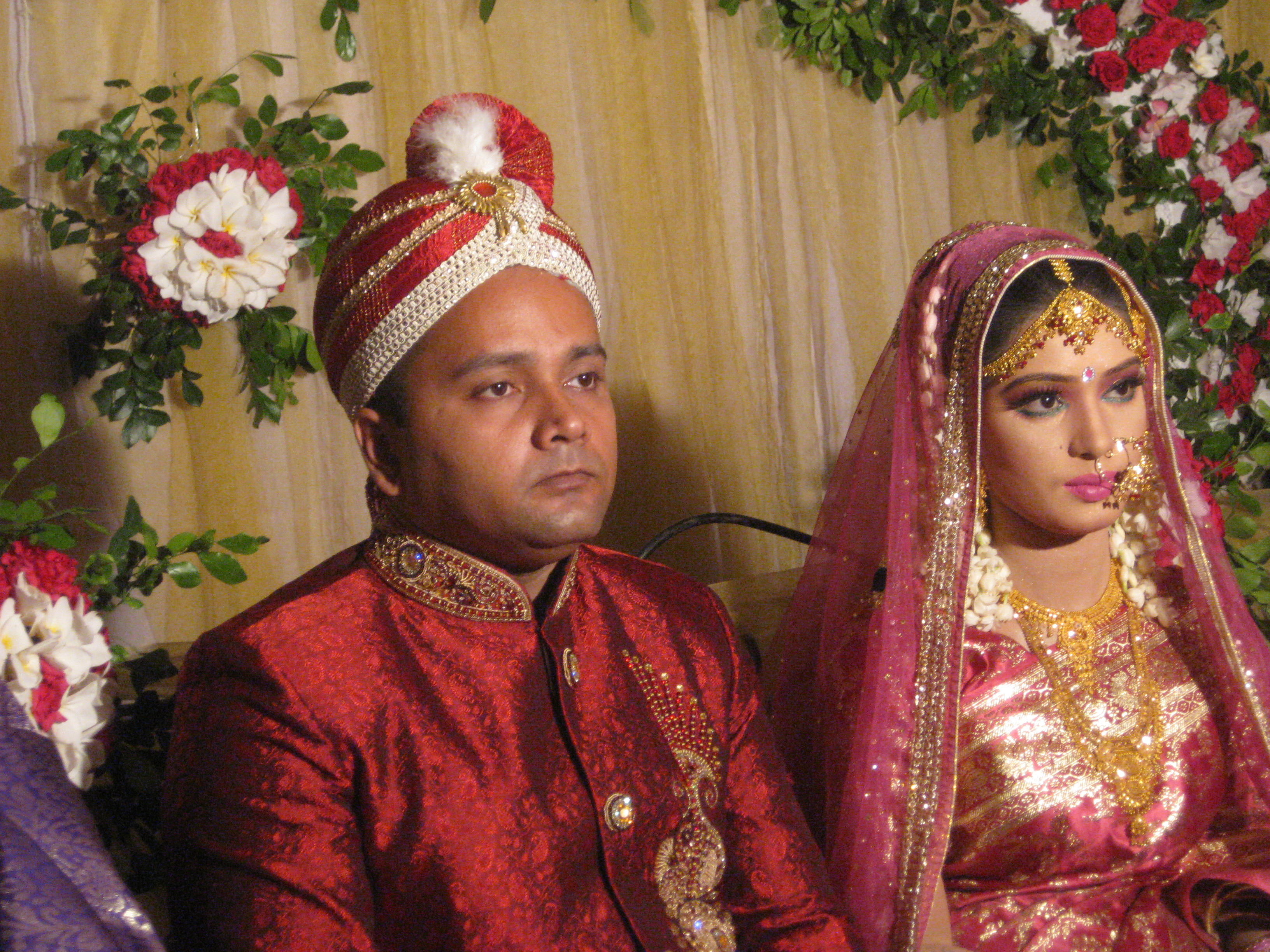 Newly married couple from Dhaka June 2014